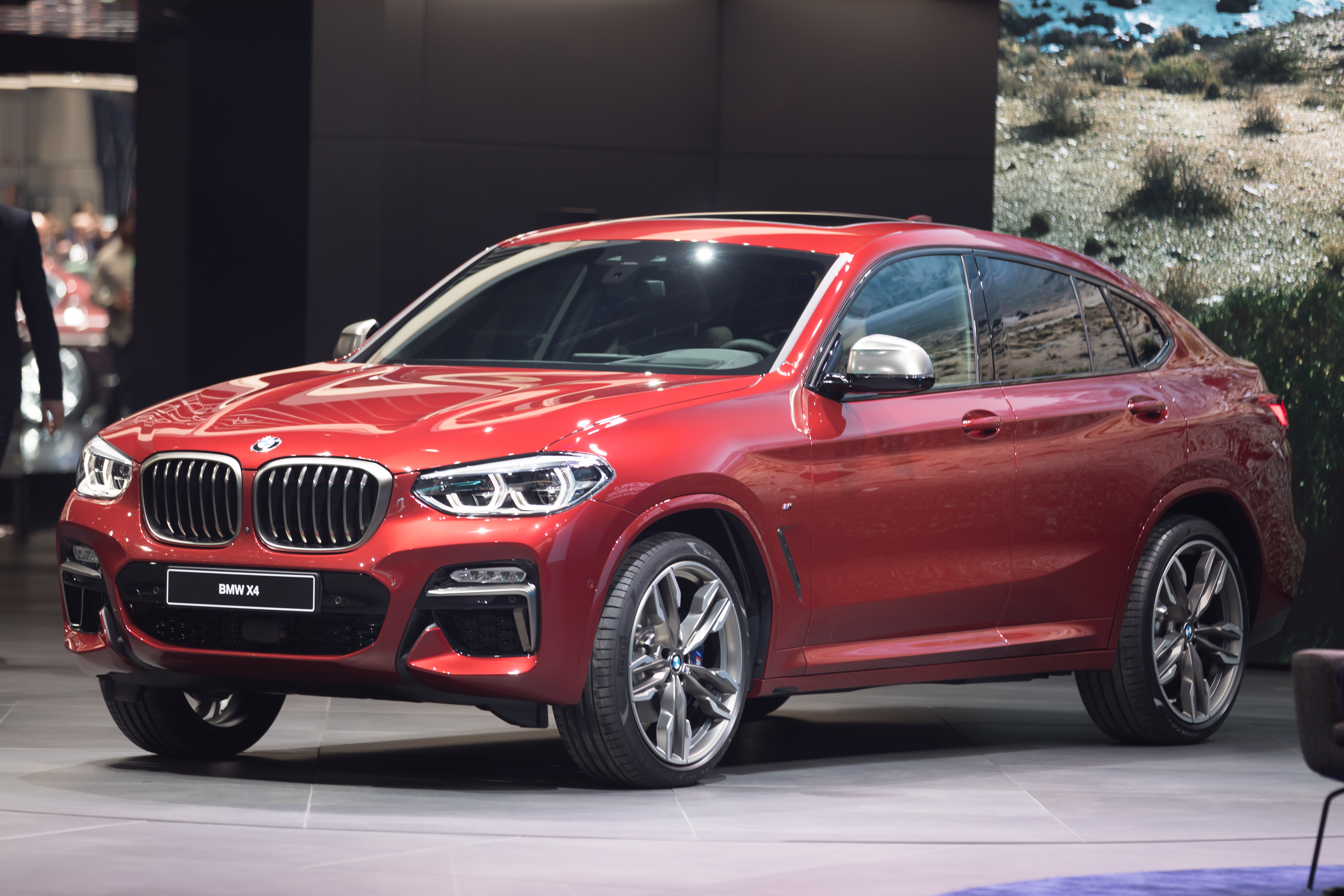 Geneva International Motor Show 2018